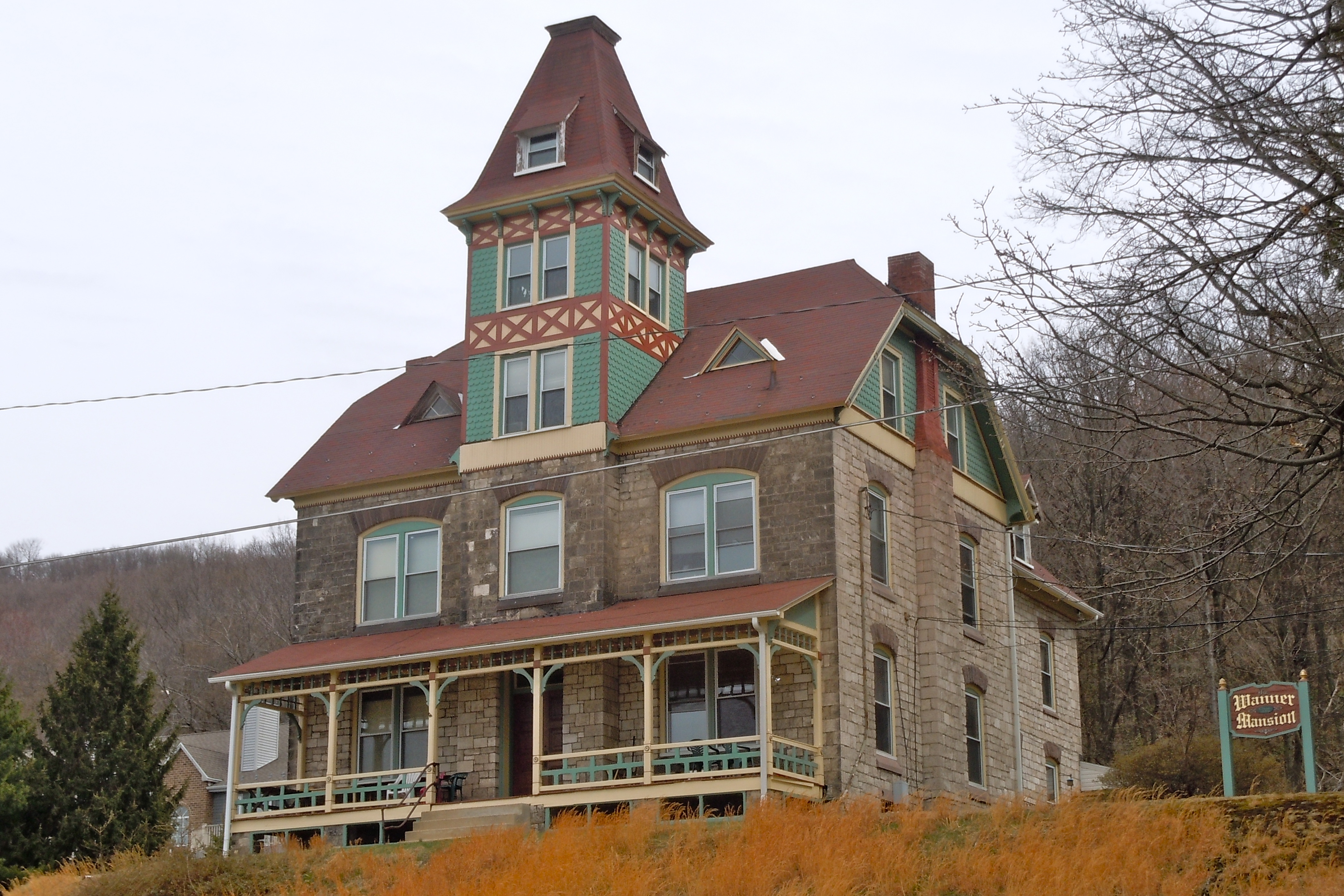 Peter Wanner Mansion on the NRHP since November 5, 1987. On the edge of town at 1401 Walnut Street, Reading, Berks County, Pennsylvania.